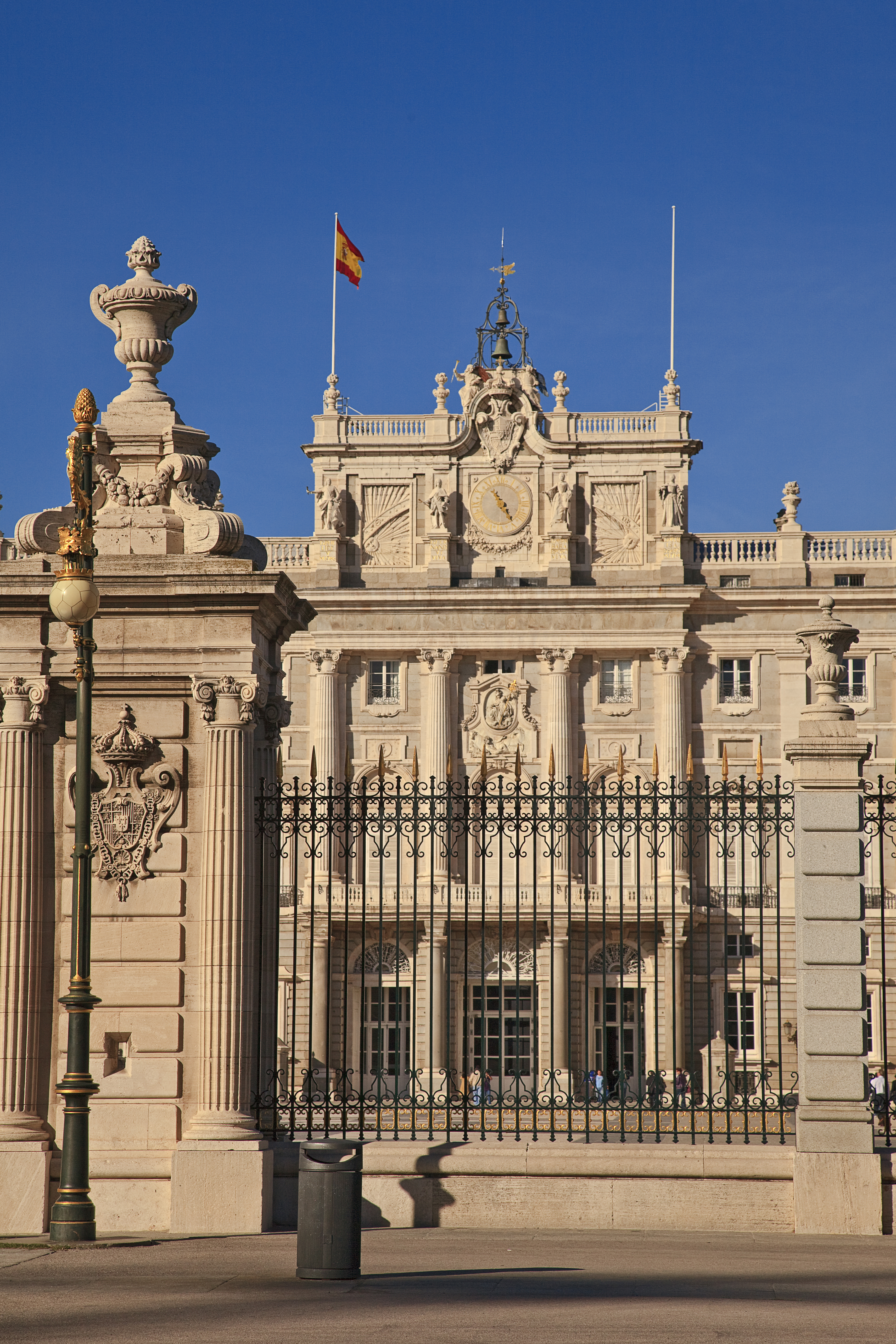 Madrid. Royal Palace. Spain